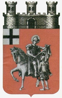 Coats of Arms of Zons, Germany